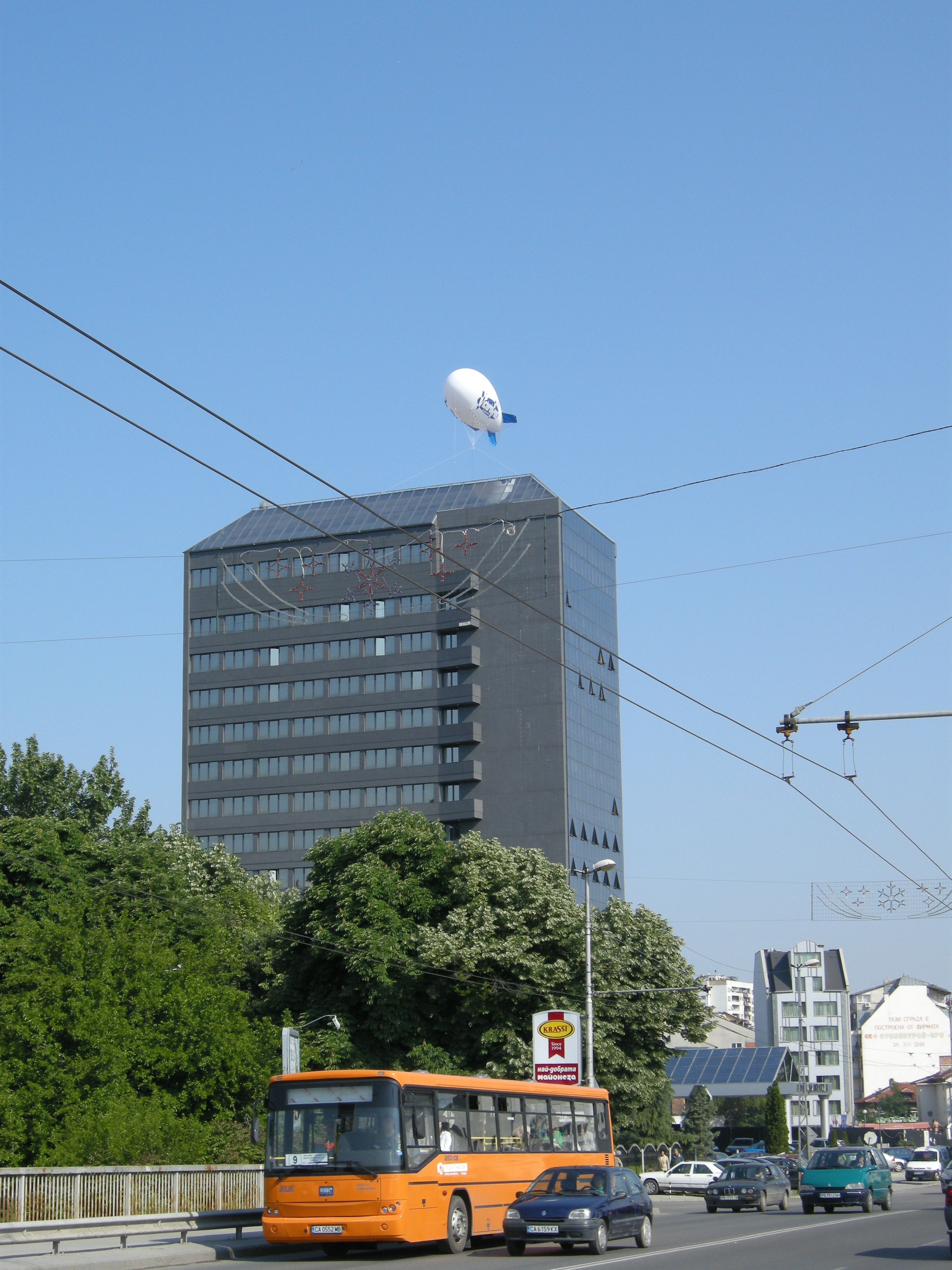 Maritza Hotel in Plovdiv, near to the Plovdiv International Fair, Bulgaria. BMC Belde 250 CB bus (#0552, reg. CA 0552 MB), built 2007, "Градски Tранспорт-Пловдив" АД (Транс Сити ООД) from Plovdiv (Пловдив) operator.